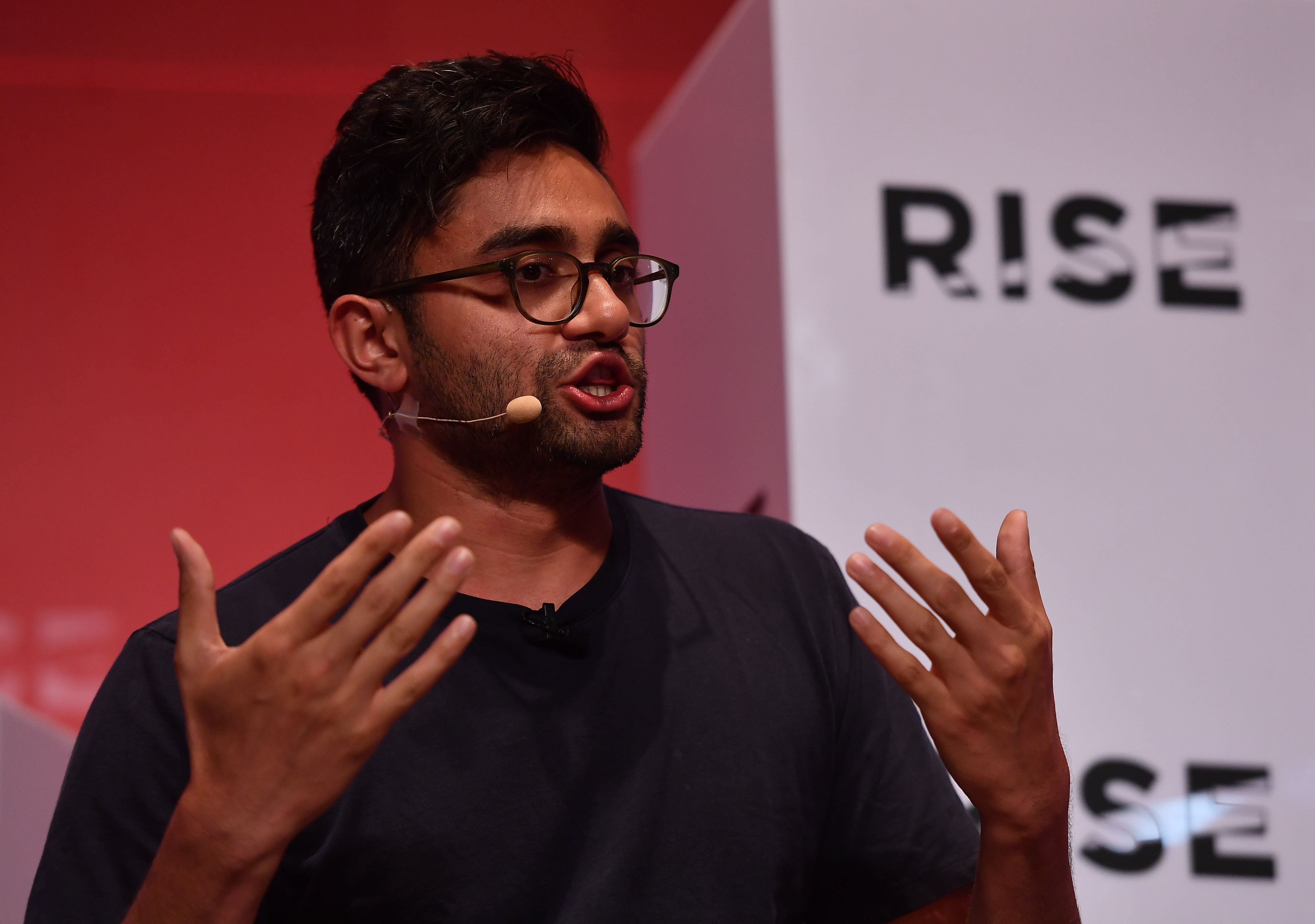 12 July 2018; Aneesh Chaganty, Director/Writer, SEARCHING, on Centre Stage during day three of RISE 2018 at the Hong Kong Convention and Exhibition Centre in Hong Kong. Photo by Seb Daly / RISE via Sportsfile